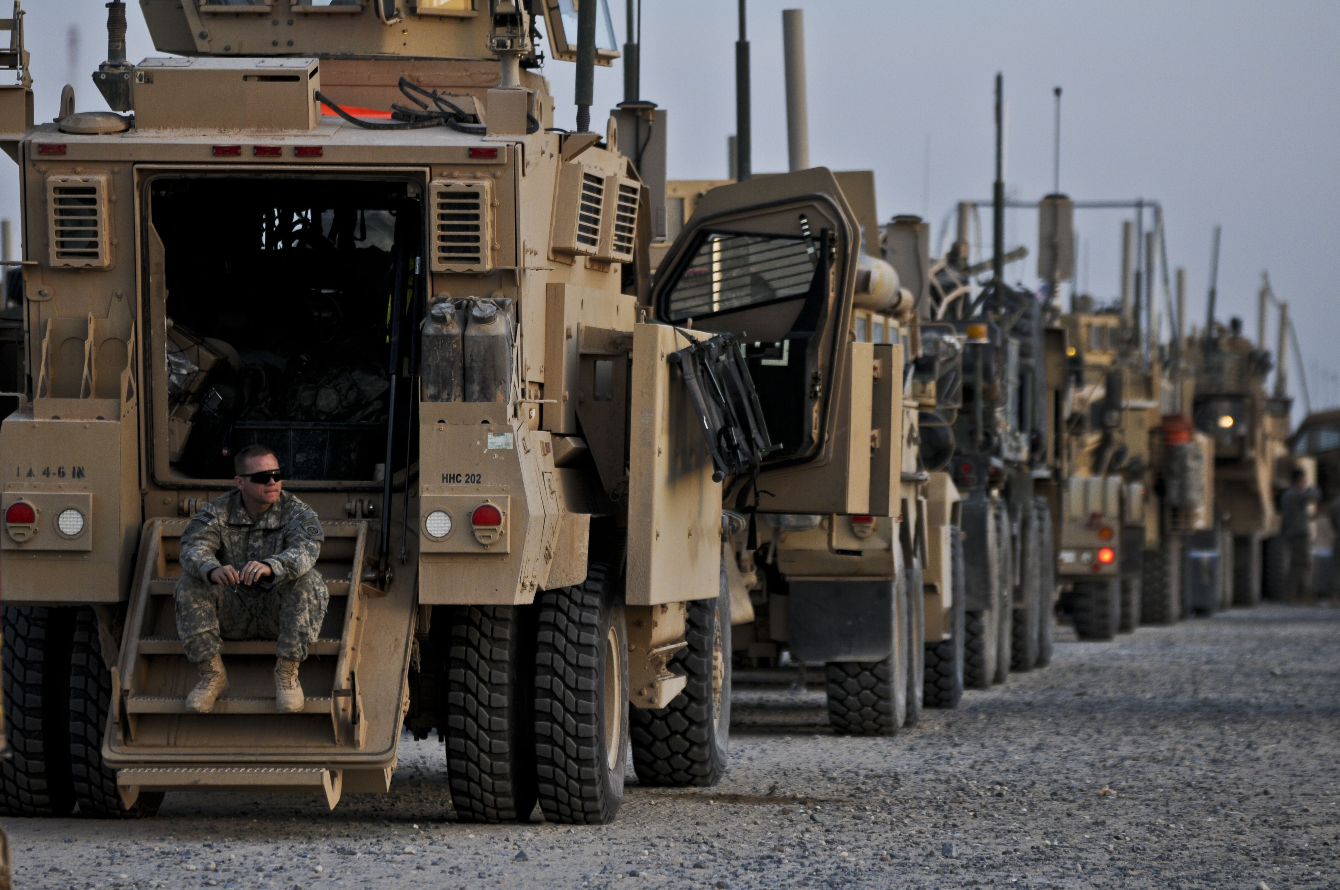 A U.S. Army soldier with the 82nd Airborne Division surveys the area from the dropdown stairs of his mine-resistant, ambush-protected vehicle while crossing the Khabari border from Iraq into Kuwait on Dec. 9, 2011.